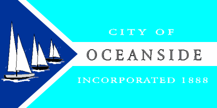 The official city flag of Oceanside, California, designed by Vernon Hall.